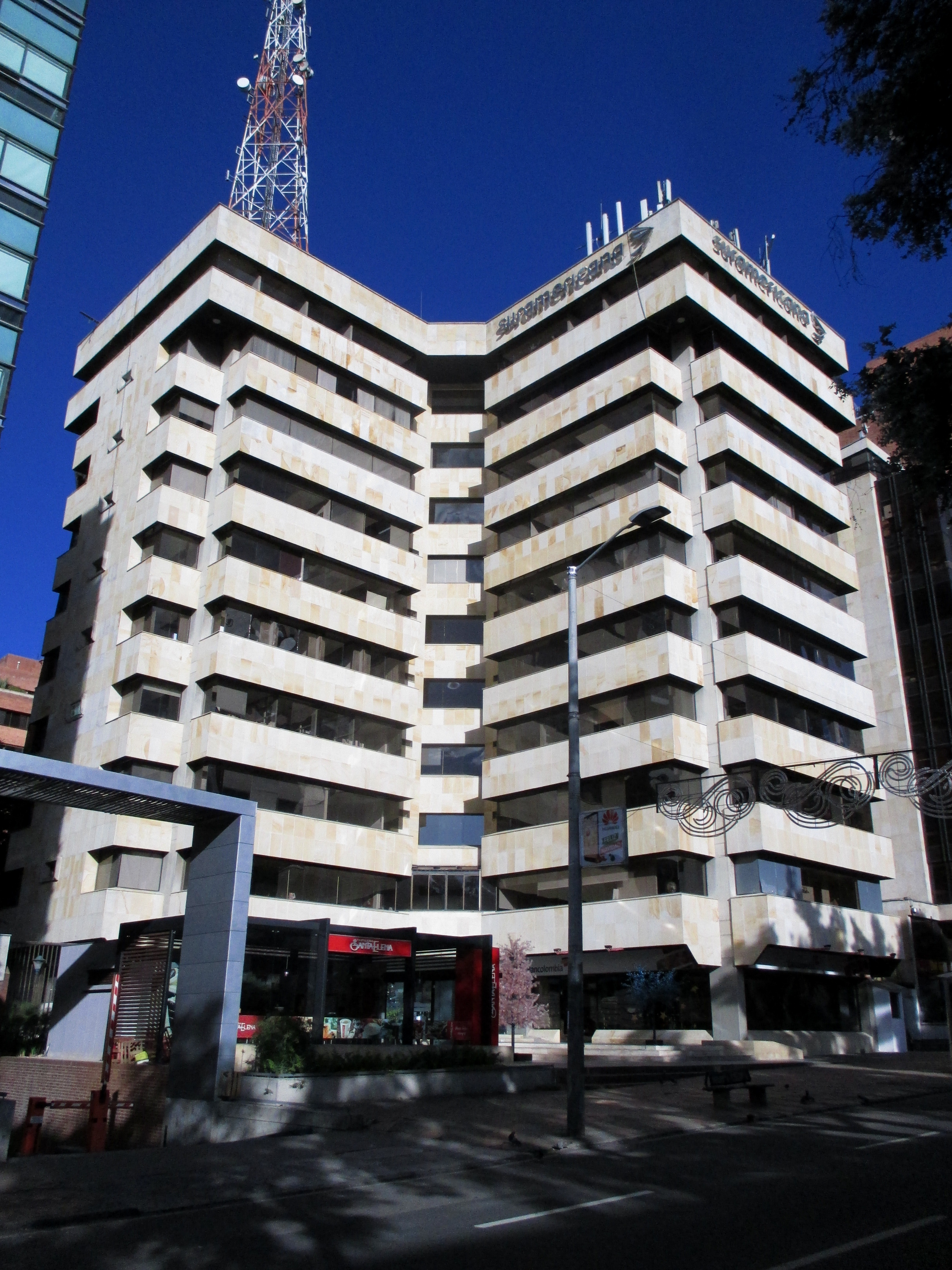 Bogotá